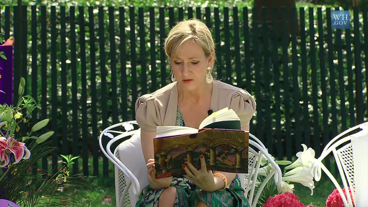 Author J.K. Rowling reads from Harry Potter and the Sorcerer's Stone at the Easter Egg Roll at White House. Screenshot taken from official White House video.